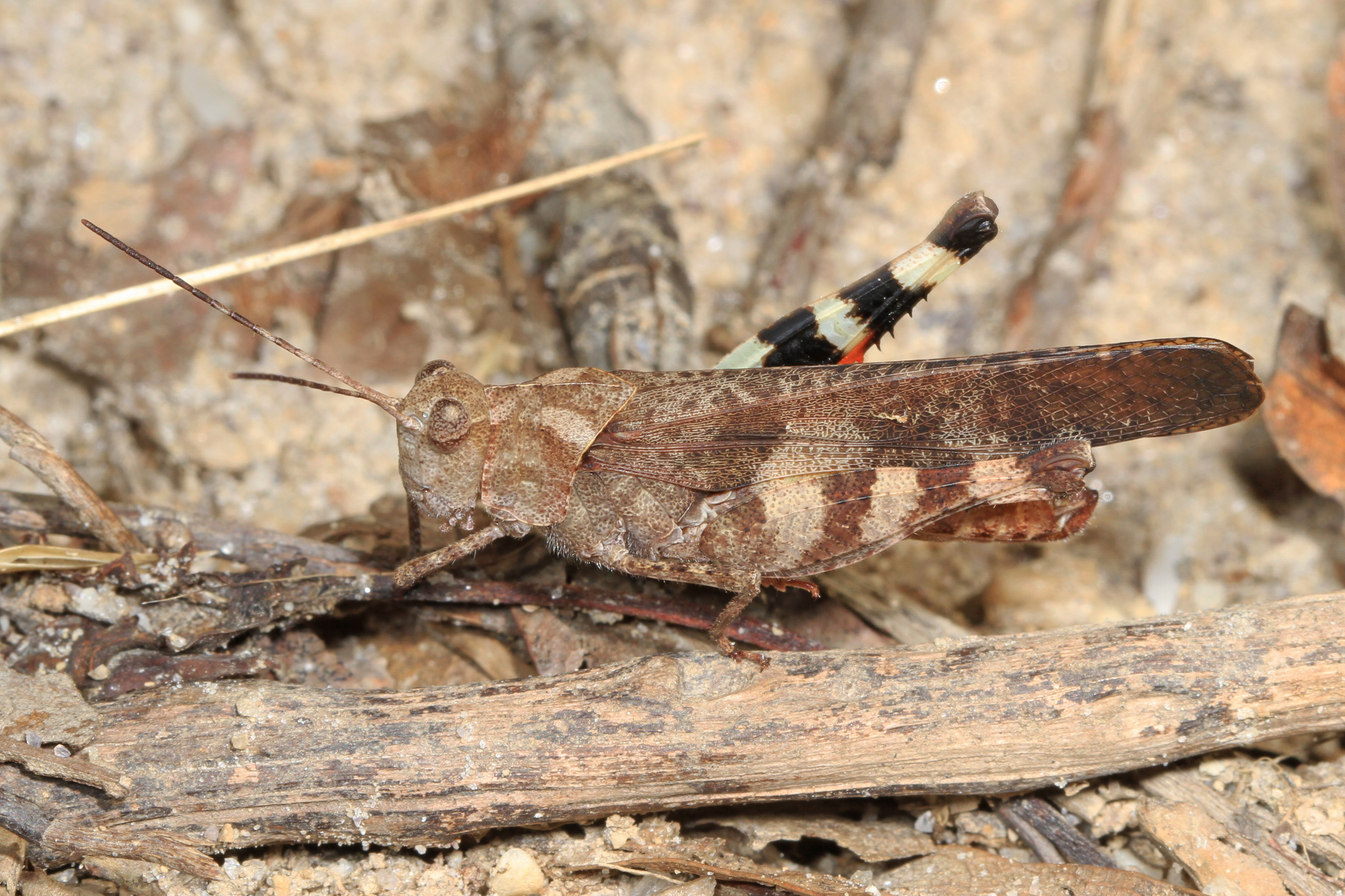 Boll's Grasshopper - Spharagemon bolli, Prince William Forest Park, Triangle, Virginia. It blends in much better when it doesn't have its leg raised.